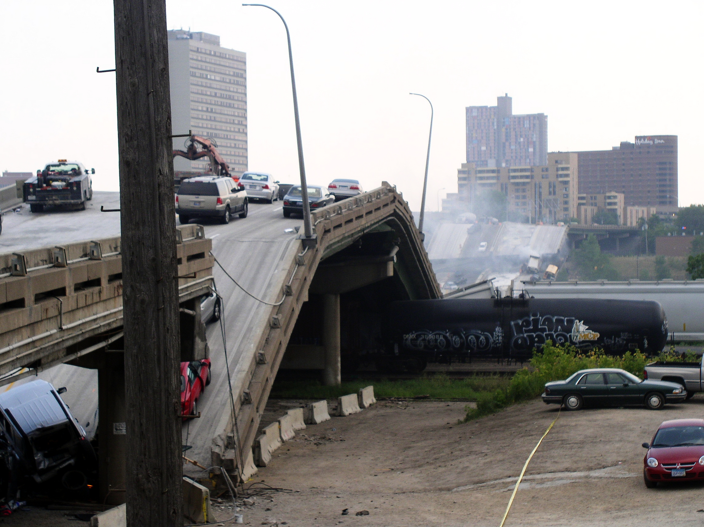 Collapse of the I-35W Bridge, looking southward